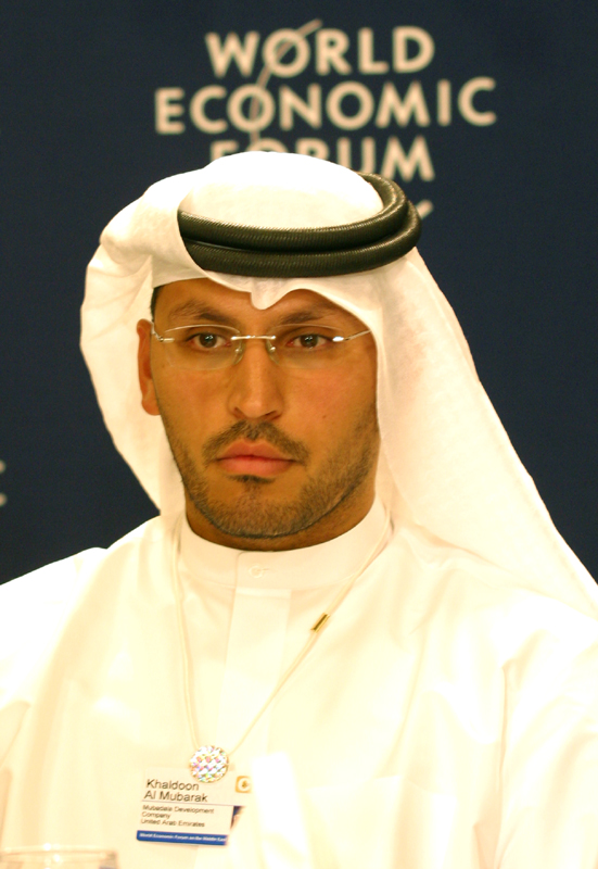 Khaldoon Al Mubarak, Co-Chair of the World Economic Forum on the Middle East; Chief Executive Officer and Managing Director, Mubadala Development Company captured at the World Economic Forum on the Middle East held at the Dead Sea in Jordan 18-20 May 2007. Copyright World Economic Forum (